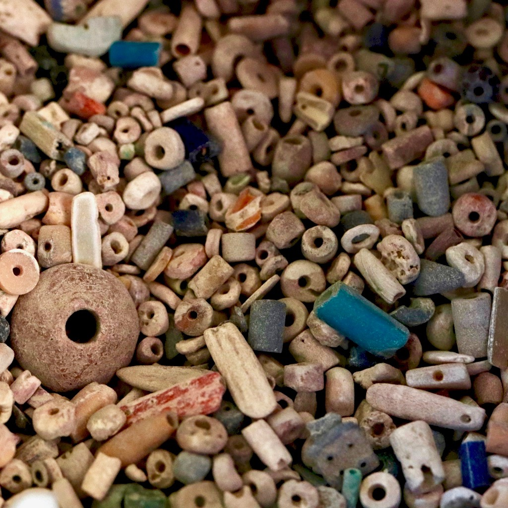 Mummy beads, or Egyptian faience beads. These were imported from Egypt and acquired into private collection in 1979 - they are approximately 3000 years old.